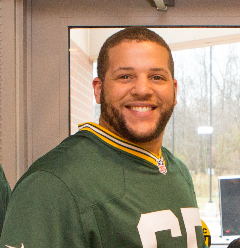 Green Bay Packers clinic visit: Lane Taylor crop